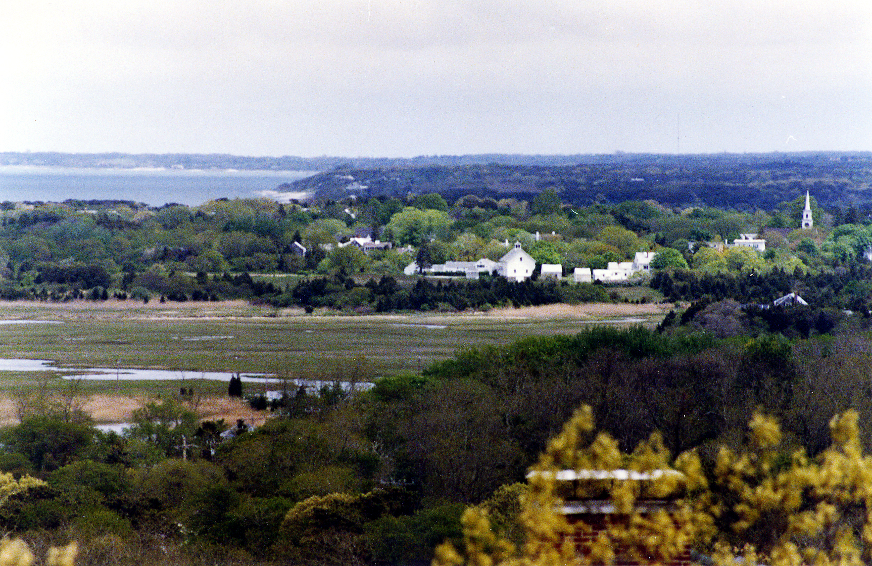 Yarmouth, Massachusetts (by Cape Cod), USA. Date: 1991.